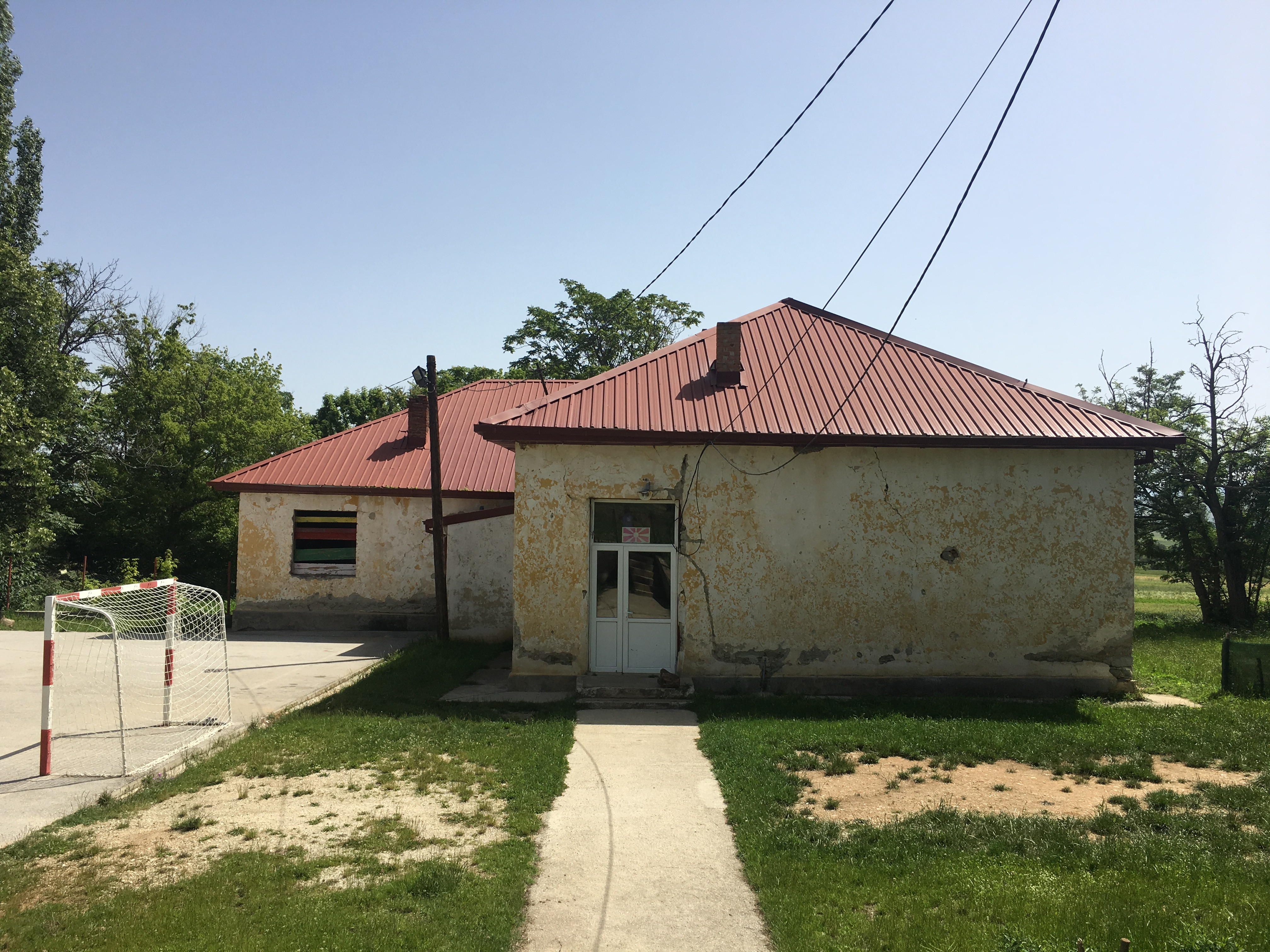 The primary school in the village of Trnovci